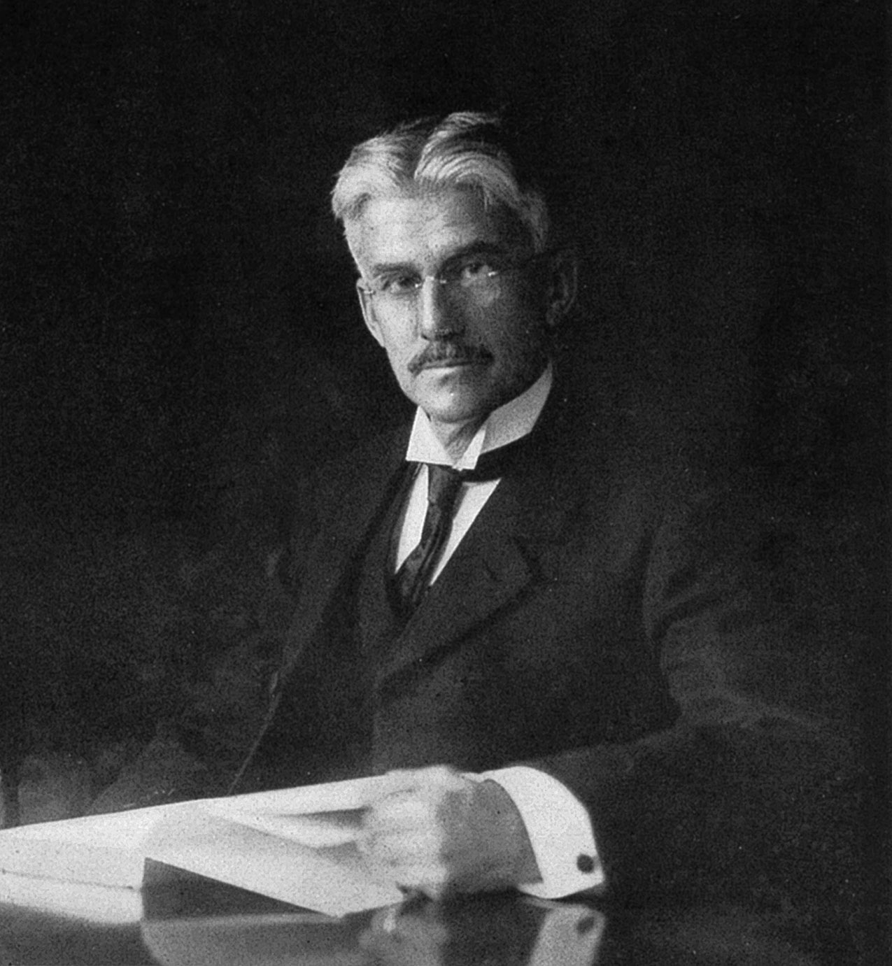 It's unclear who took this photograph, but it is the photograph of Munsell included in A Color Notation, his 1905 book, and is therefore now out of copyright. The image was restored by Munsell Color Science Laboratory graduate student Douglas Corbin in 1998 as described here.